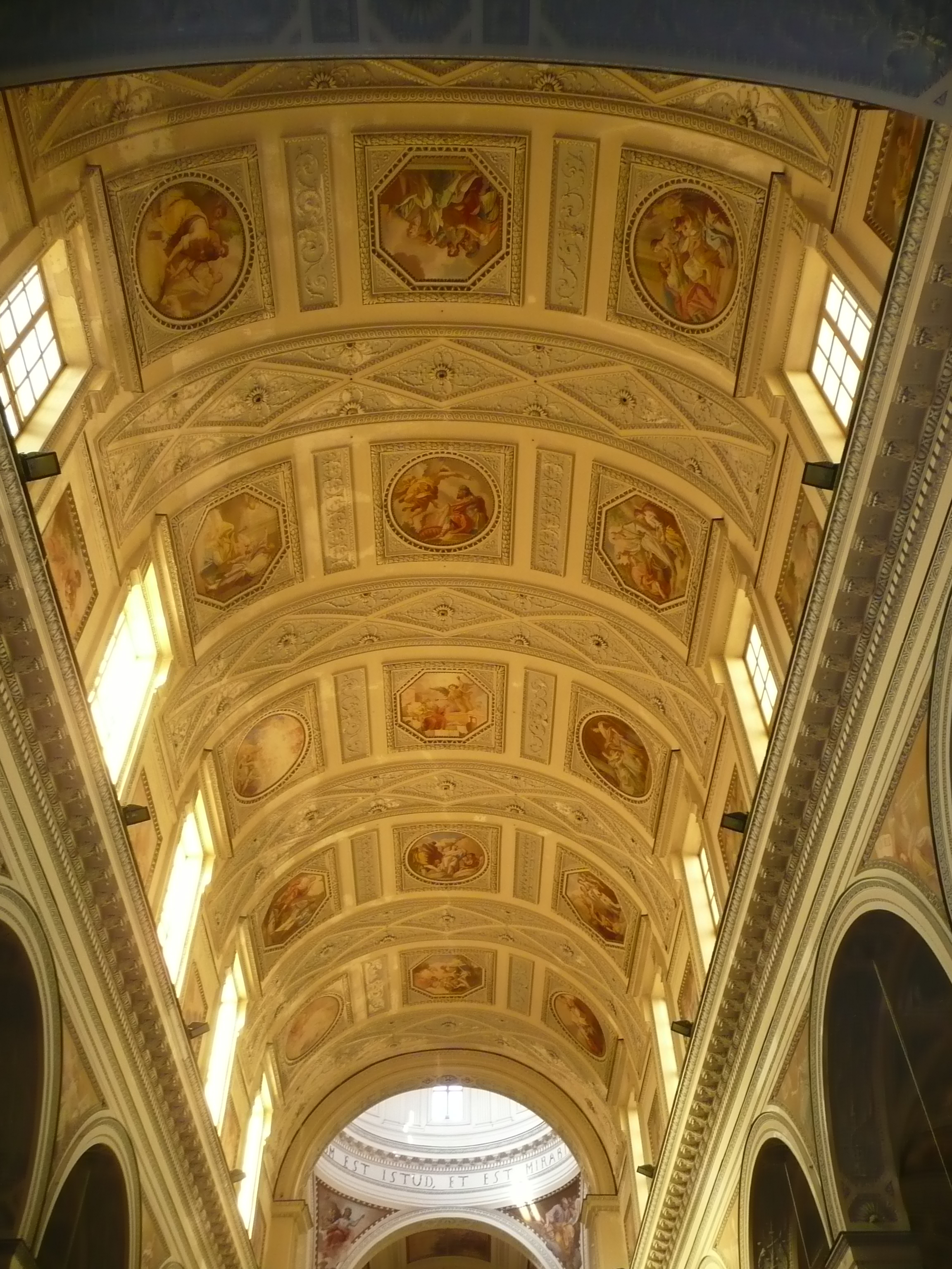 Trapani, Italien: Kathedrale San Lorenzo